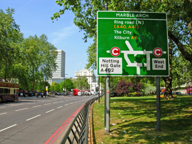 Park Lane - Running along the eastern side of Hyde Park, Park lane is one of central London's busiest thoroughfares. This view shows the northbound carriageway; the road is divided by a broad central reservation.